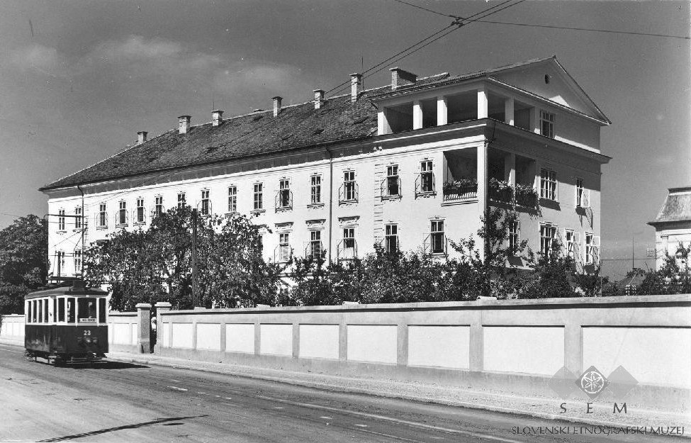 Postcard of Ljubljana, Leonišče Sanatorium